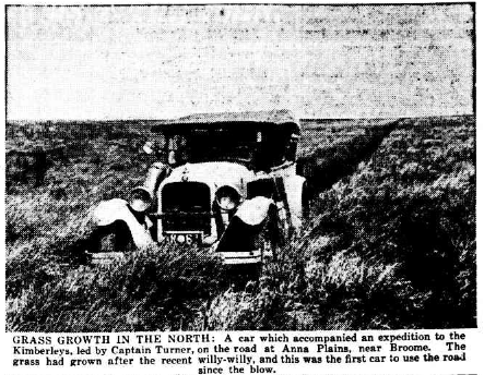 Motor Car showing grass growth at Anna Plains